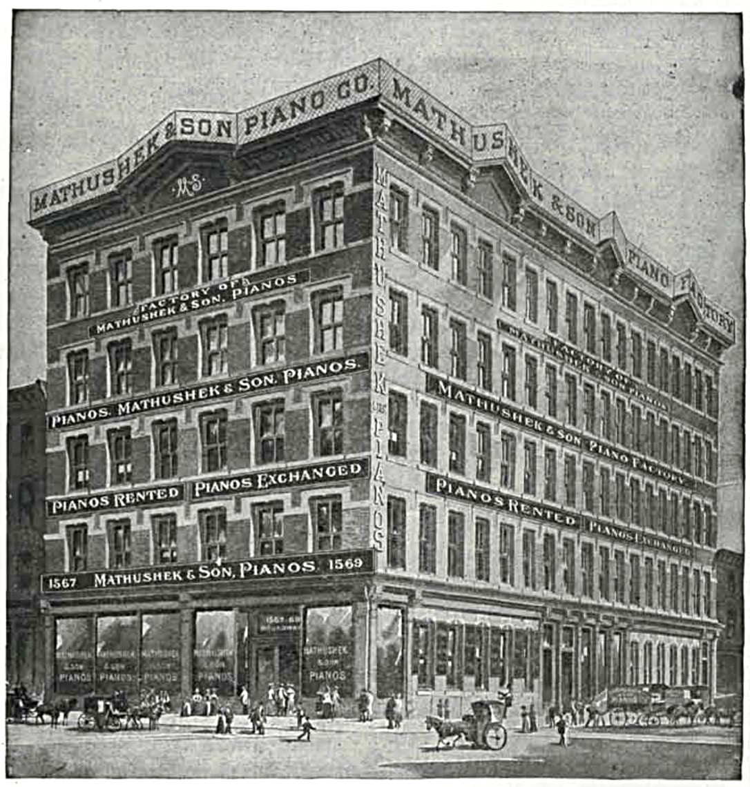 Mathushek & Son piano factory, corner of Broadway and 47th street, New York ca. 1903